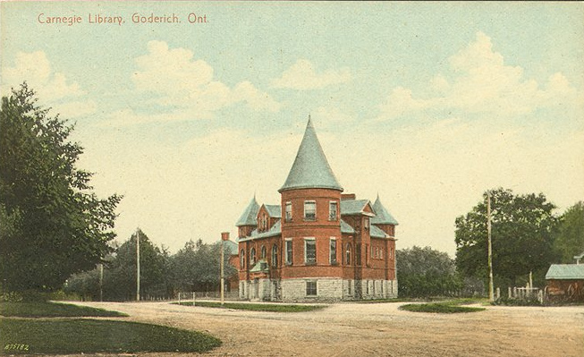 Carnegie Library, Goderich, Ontario, Canada Creator: Smith's Art Store Date: 1910 Identifier: PC-ON 672 Format: Postcard Rights: Public domain Courtesy: Toronto Public Library You can order order a print or high-resolution copy.